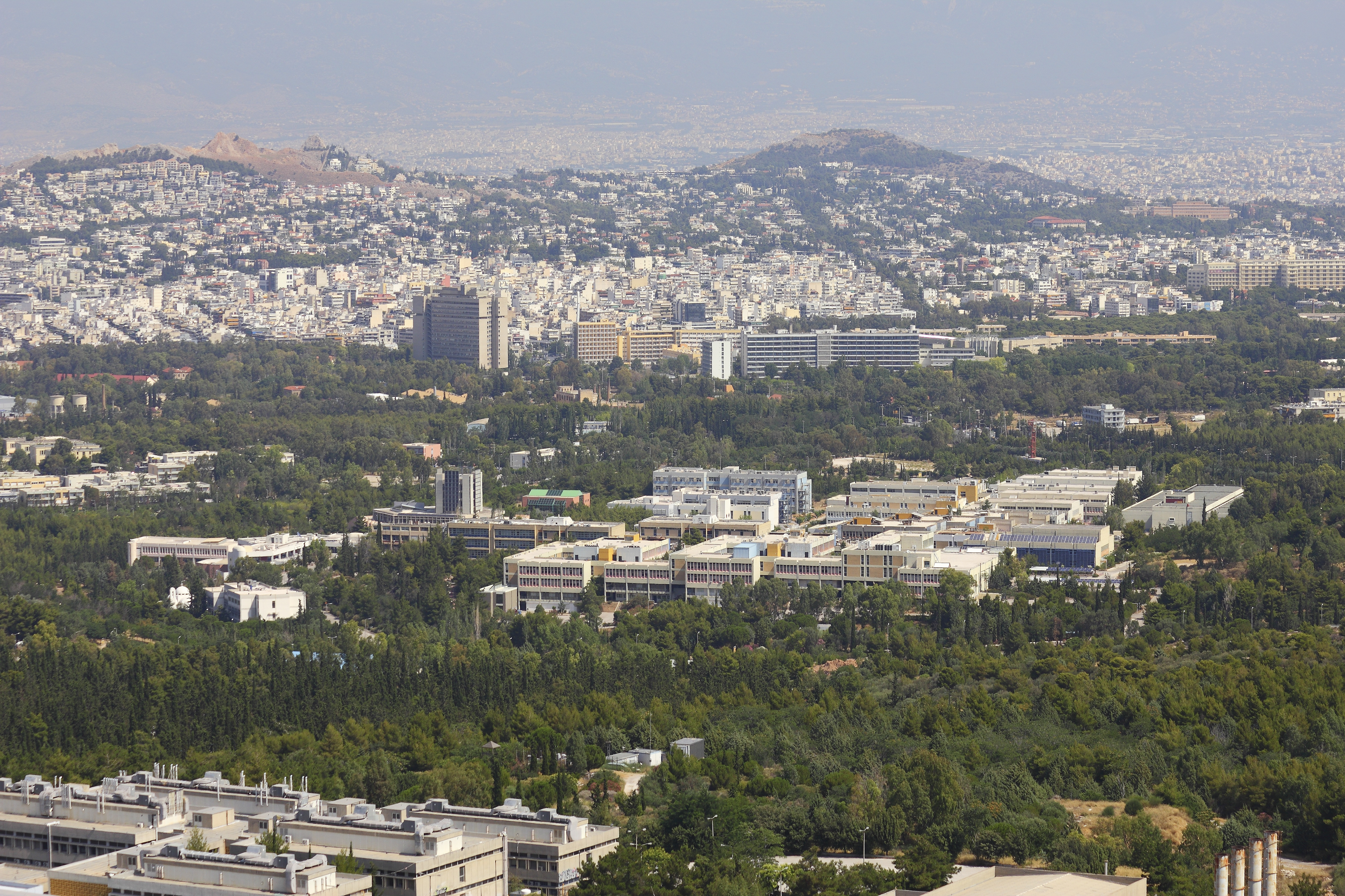 Polytechnopolis Zografou - view from Kalogeros Hill to the suburbs of Athens (Attica, Greece)